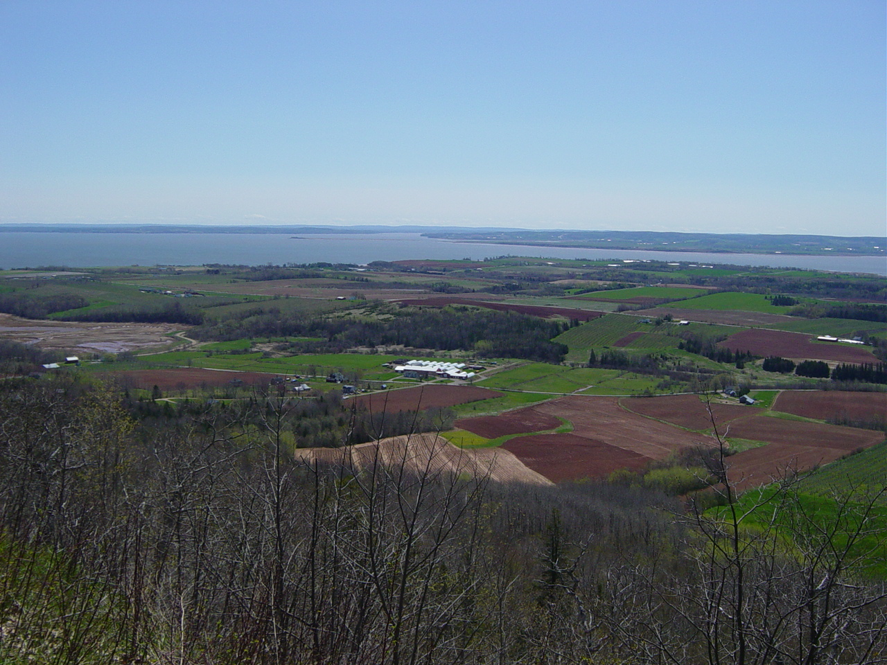 Minas Basin from the Look Off, Nova Scotia, Canada.